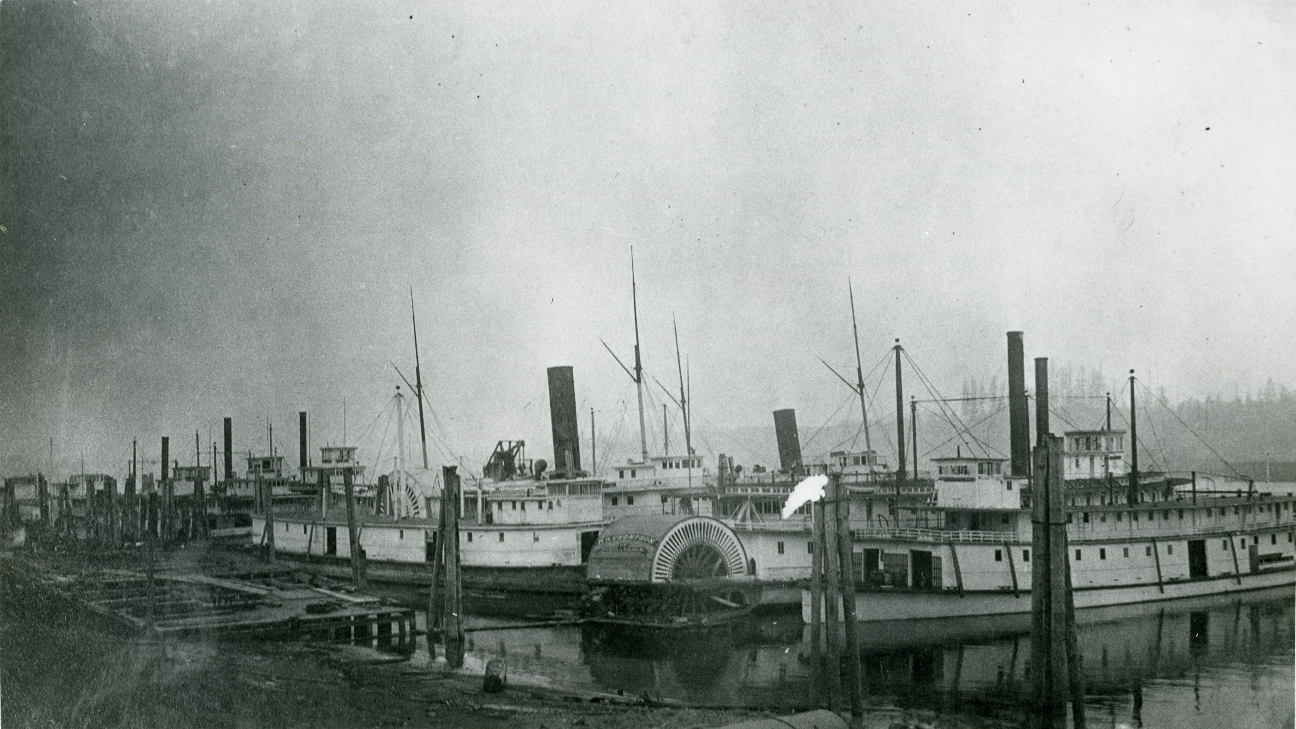 Steamboat "boneyard" at Portland, Oregon, on the Willamette River. Sternwheeler R.R. Thompson clearly visible. Also in image are two large sidewheelers, Alaskan and Olympian, identifiable by their two auxiliary schooner-rigged sailing masts, walking beam engine (visible on one), large smokestacks, and position and style of pilot houses. Presence of Alaskan allows this image to be dated to sometime between 1883, when Alaskan was built, and May 1889, when Alaskan was sunk off Cape Blanco.